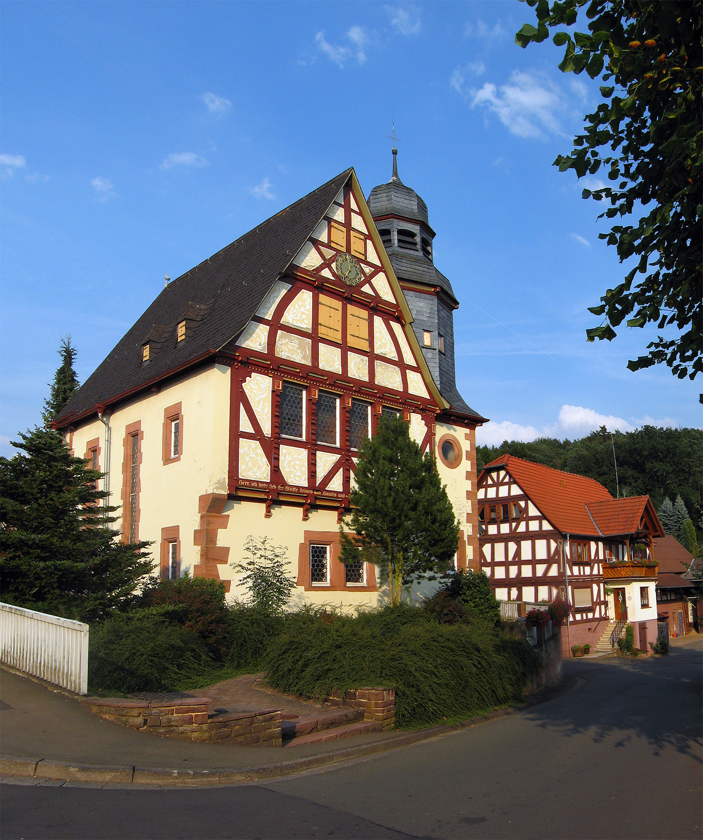 The church of Wolferode a village in the area of Stadallendorf